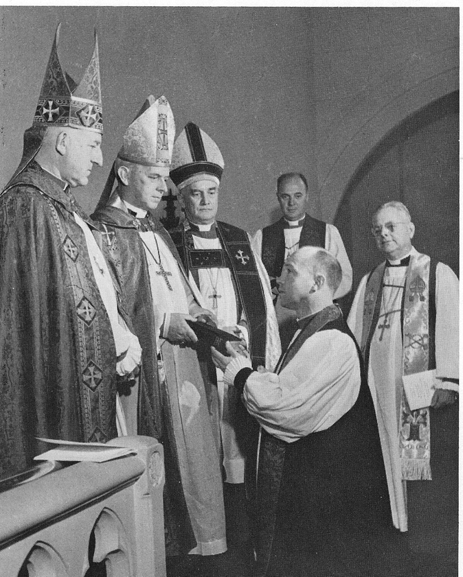 Consecration of William Evan Sanders as Episcopal Bishop Coadjutor of Tennessee, St. Mary's Episcopal Cathedral in Memphis. Standing L to R: The Rt. Rev. Albert Rhett Stuart (Ga.), the Rt. Rev. Arthur Licthenberger (Presiding), the Rt. Rev. John Vander Horst (Tenn.), the Rt. Rev. James Loughlin Duncan (So. Fl.), the Rt. Rev. Girault McArthur Jones (La).